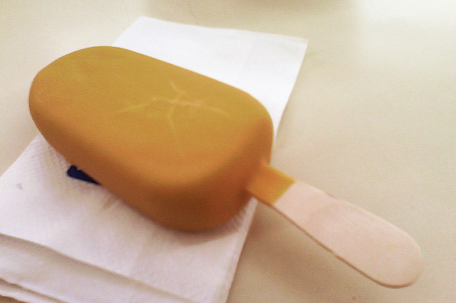 A Magnum Gold ice cream bar. Photo taken at Ministop Sucat Greenheights. "Vanilla bean ice cream with a sea salt caramel swirl dipped in a golden chocolatey coating.[1]"